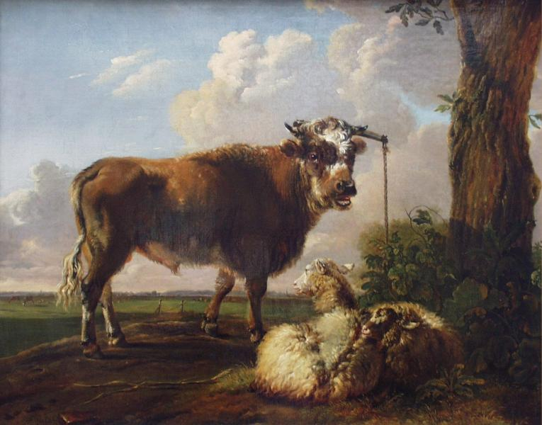 Bull and sheep